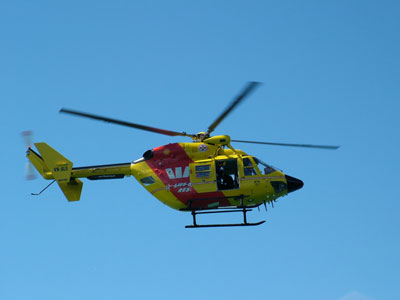 Life Saver 1. Author: Ryan Guthrie